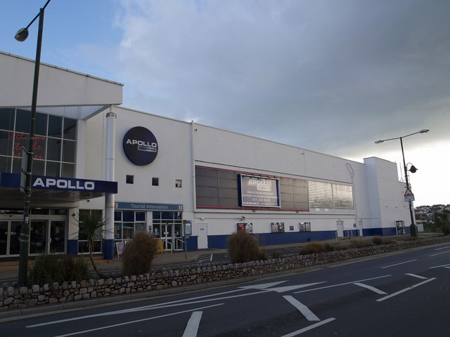 Apollo Cinema , Paignton The nine-screen multiplex is a substantial conversion (1999) of the 1960s Festival Theatre.